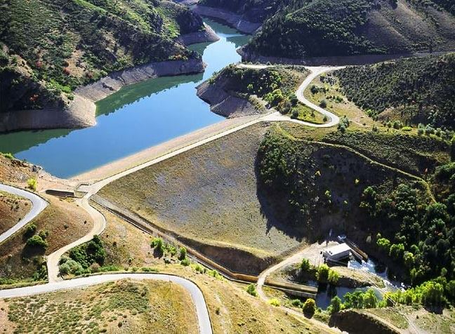 Causey Dam. For more info